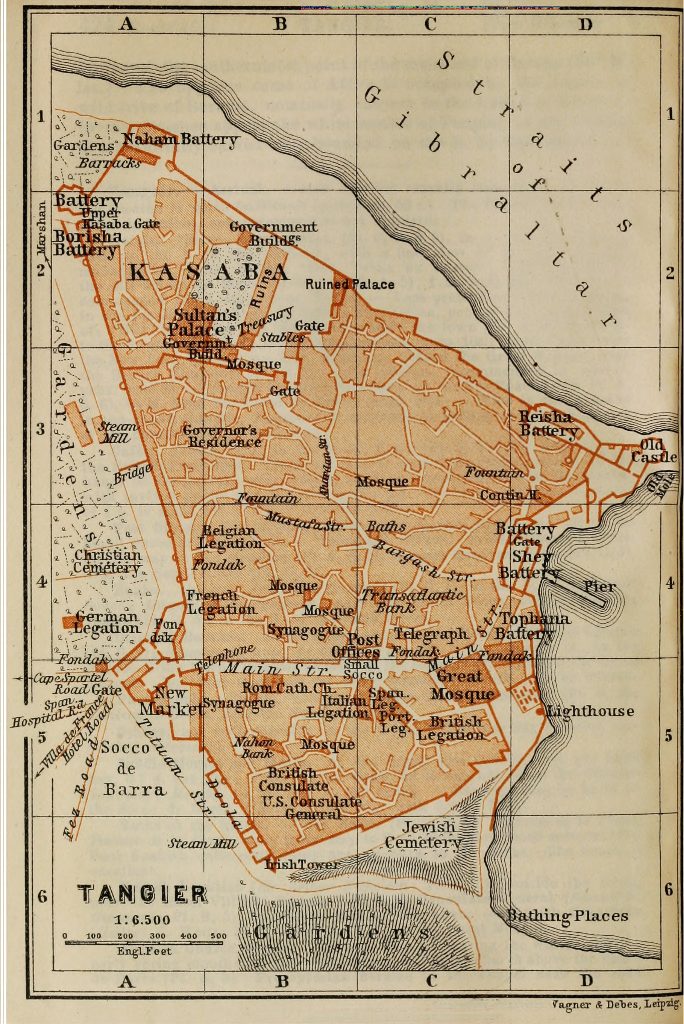 Identifier: Title: Tangier (1:6500) Work: Spain and Portugal: Handbook for Travellers, between pages 424 & 425 Year: 1901 (1900s) Authors: Karl Baedeker (Firm) Engravers: Wagner & Debes, Leipzig. Subjects: Publisher: Leipzig: K. Baedeker London: Dulau and Co. New York: C. Scribner's Sons